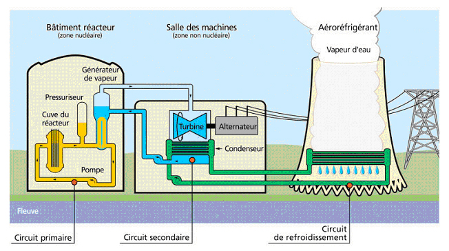 Nuclear plant